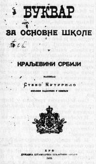 First pages of the book Steva Chuturilo, printed in Corfu 1916.